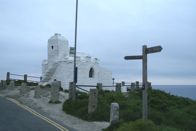 Coast Path sign above Pigeon Cove. Near the Huer's Hut